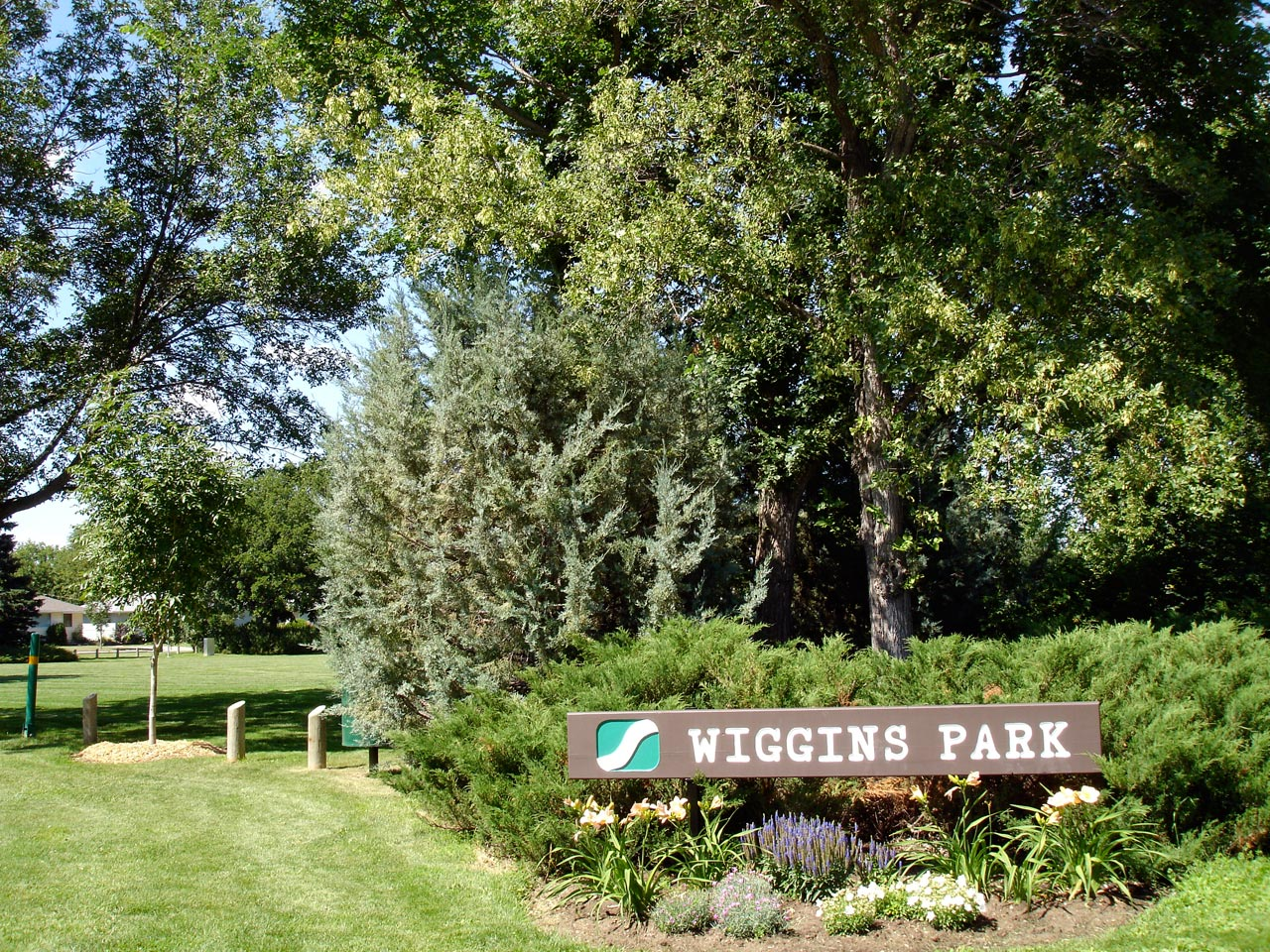 Wiggins Park, a public park in the Holliston neighbourhood of Saskatoon, Saskatchewan, Canada.